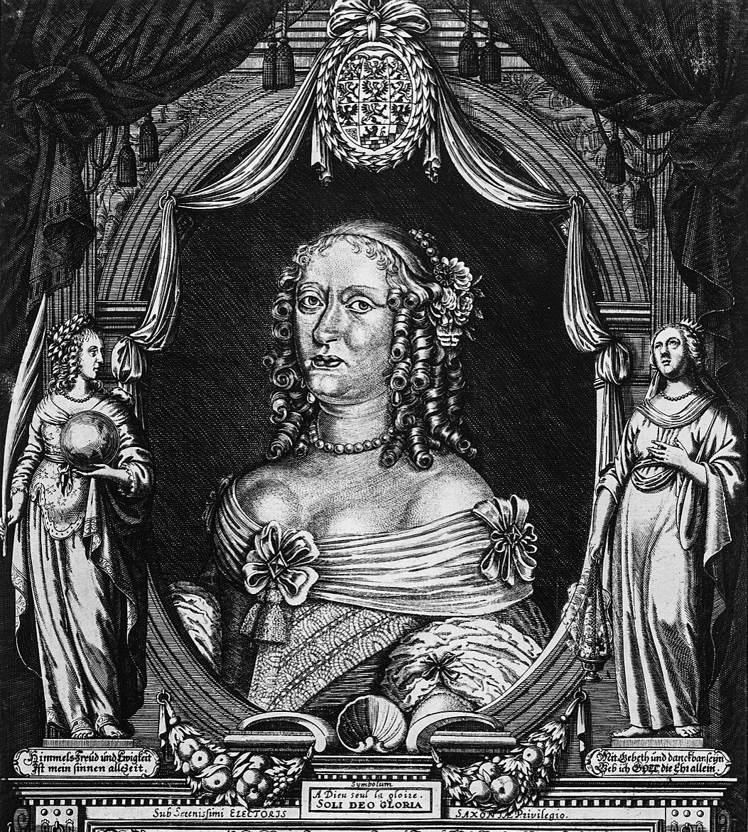 Magdalene Sibylle of Brandenburg-Bayreuth (1612-1687), Electress of Saxony